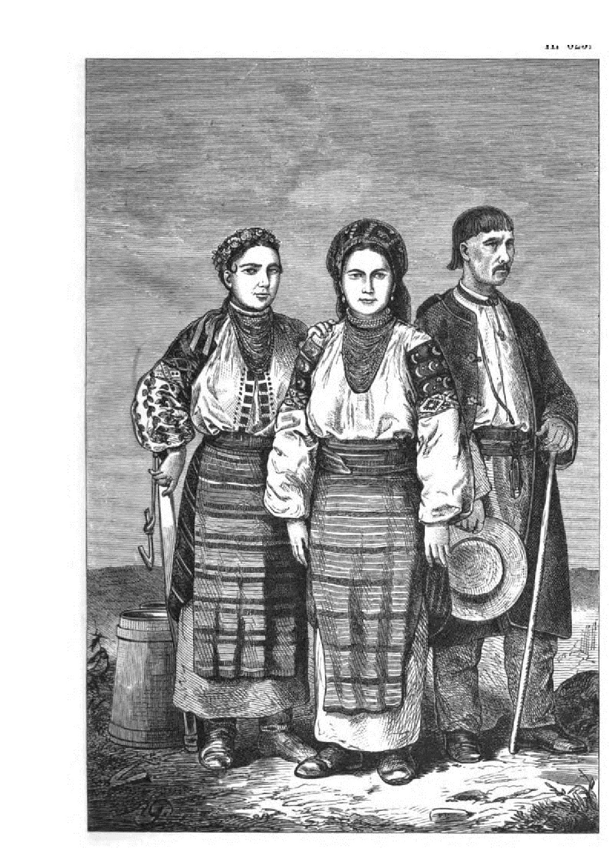 Rusyns Русини с. Гермаківка , Чортківського повіту (Борщівський р-н) (Подоляни)